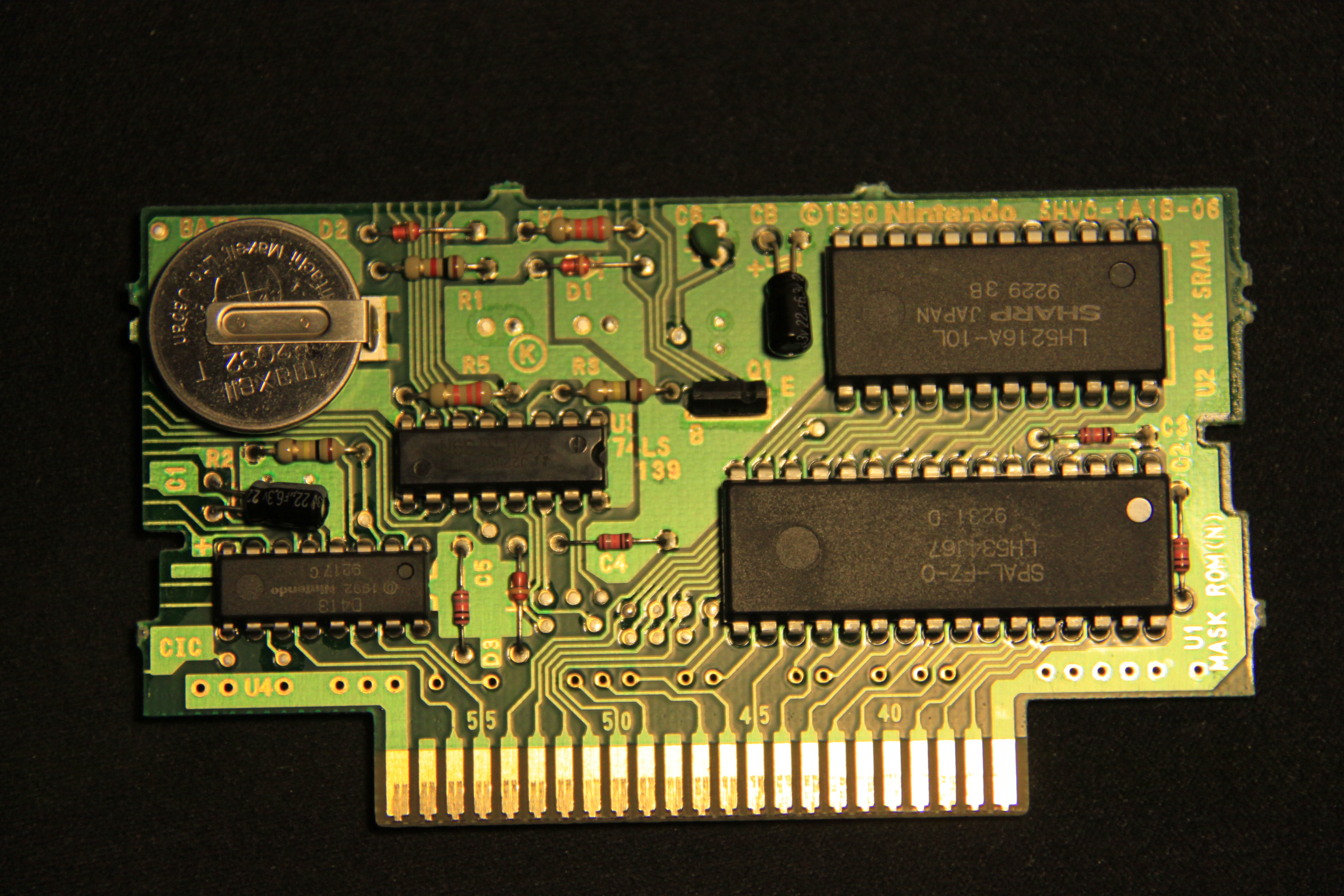 PCB from the PAL version of the F-ZERO game pak for the Super Nintendo Entertainment System.